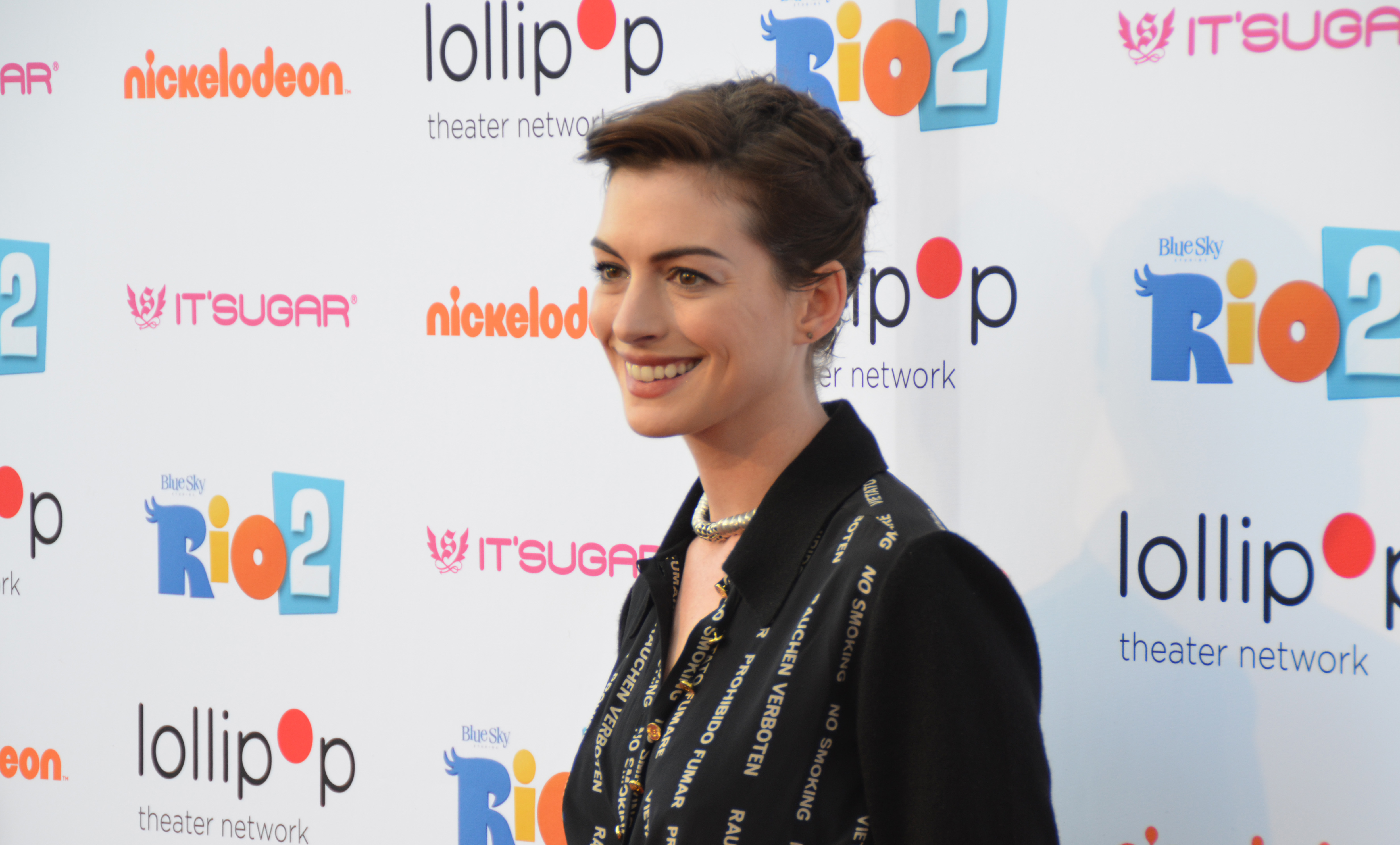 Mingle Media TV and Red Carpet Report host Kristina Rivera were invited to cover the Lollipop Theater Network’s Night Under The Stars hosted by Anne Hathaway featuring a screening of Rio2 at Nickelodeon studios in Burbank, CA. Follow our host Kristina on Twitter at